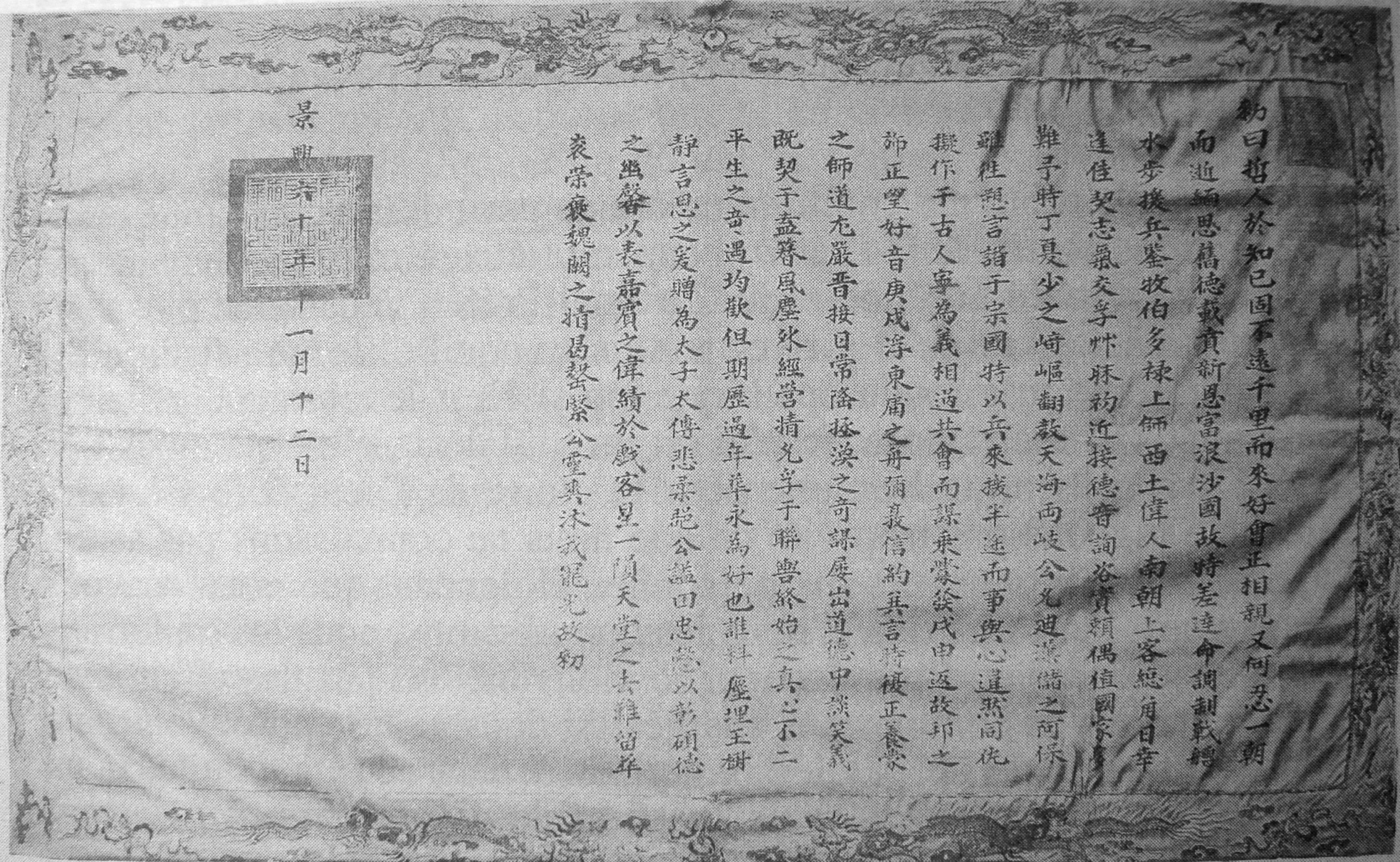 Funeral Oration of Gia Long to Pigneau de Behaine, 8 Dec, 1799. There is a text version in Chinese wikisource.